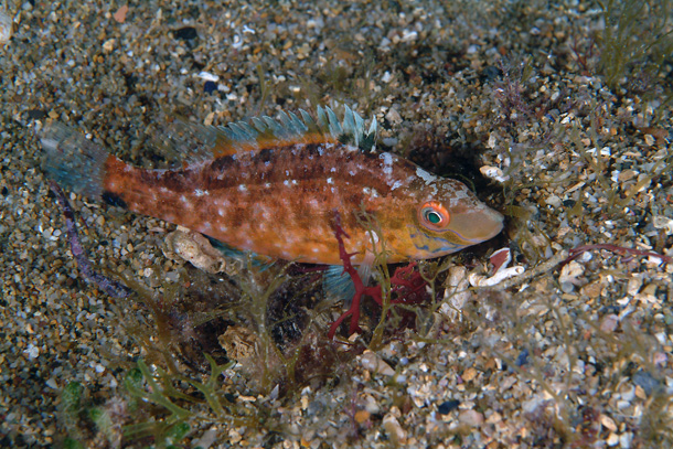 Symphodus cinereus (spawning male) photographed near Tuscany coasts (Italy). Photo by Stefano Guerrieri.